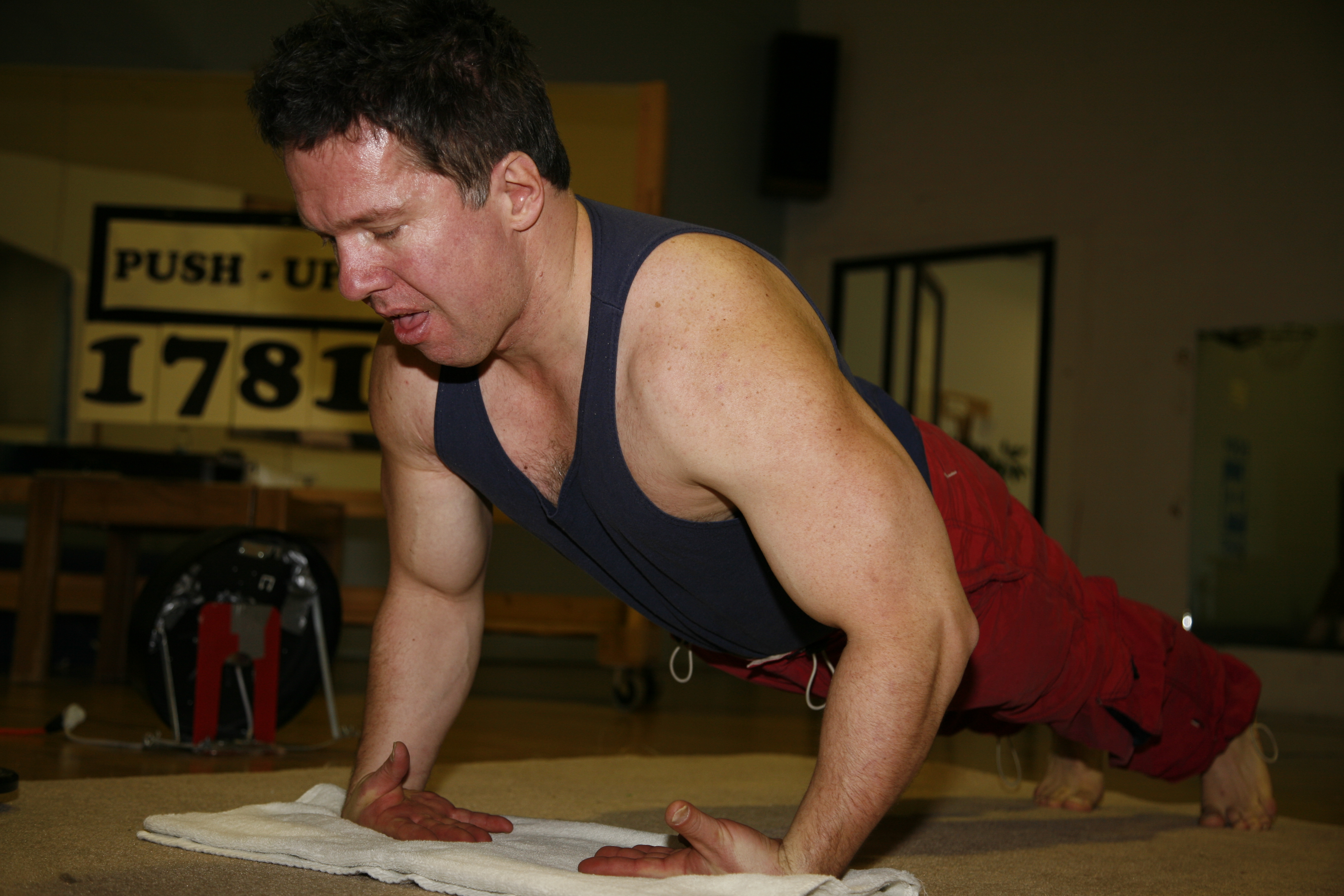 Doug Pruden doing back of the hand push ups in a gym in Edmonton, July, 2005